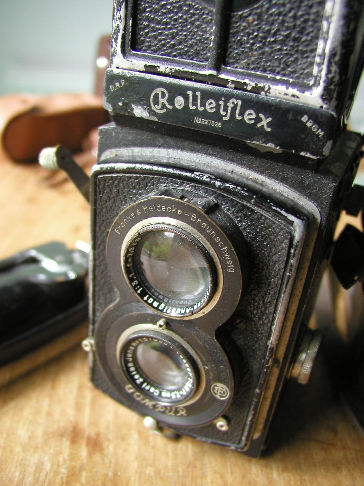 Grampa Fred's old Rolleiflex he used in North Africa. Some of Cecil Beaton's most famous pictures were taken with one of these. It still works. I have an old Johnson enlarger that dates earlier than this which will take negatives up to 10x16. The only way to get a true old appearance to photo's is to use the real equipement in my opinion.